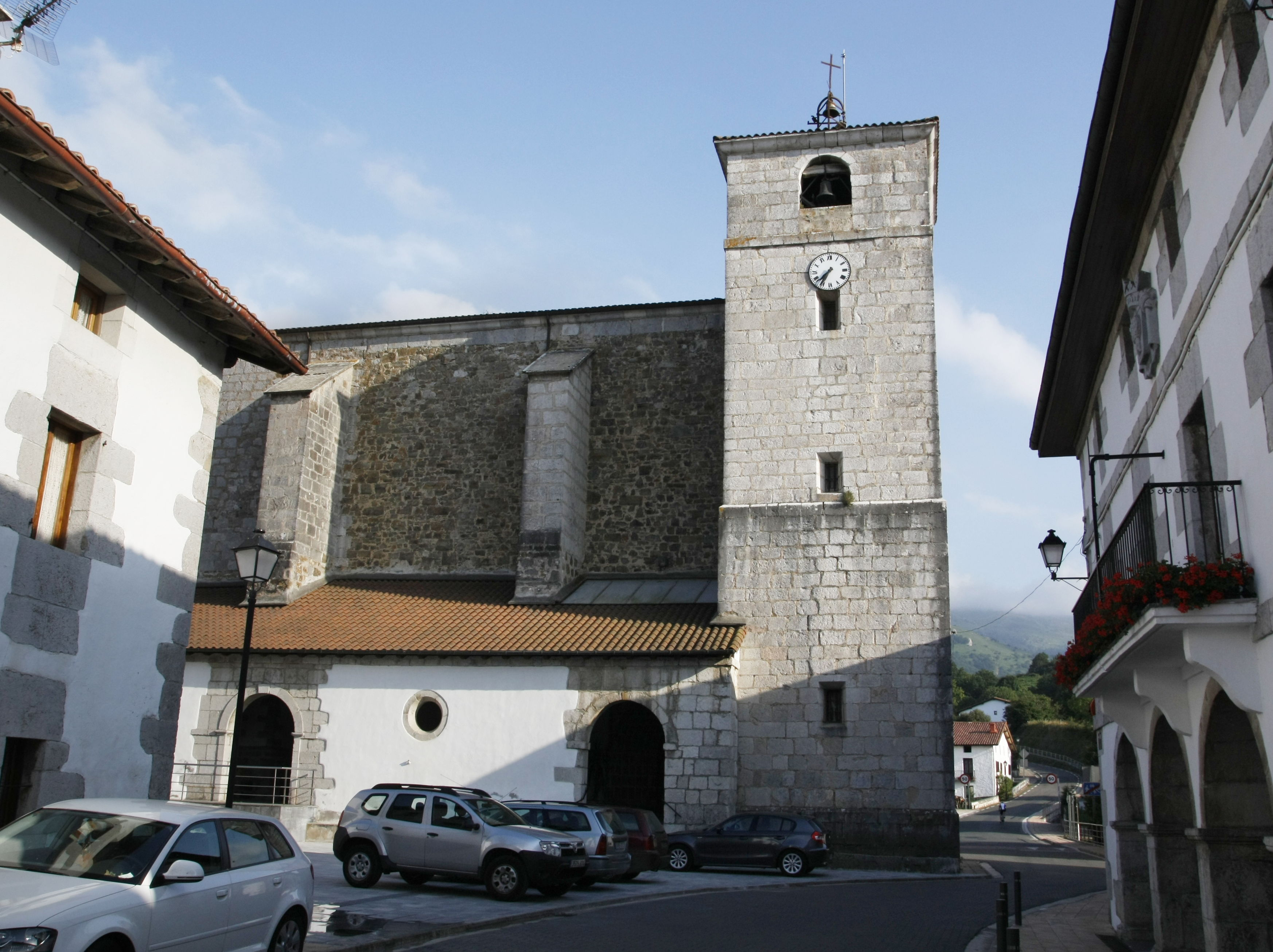 San Juan Bautista church - Abaltzisketa